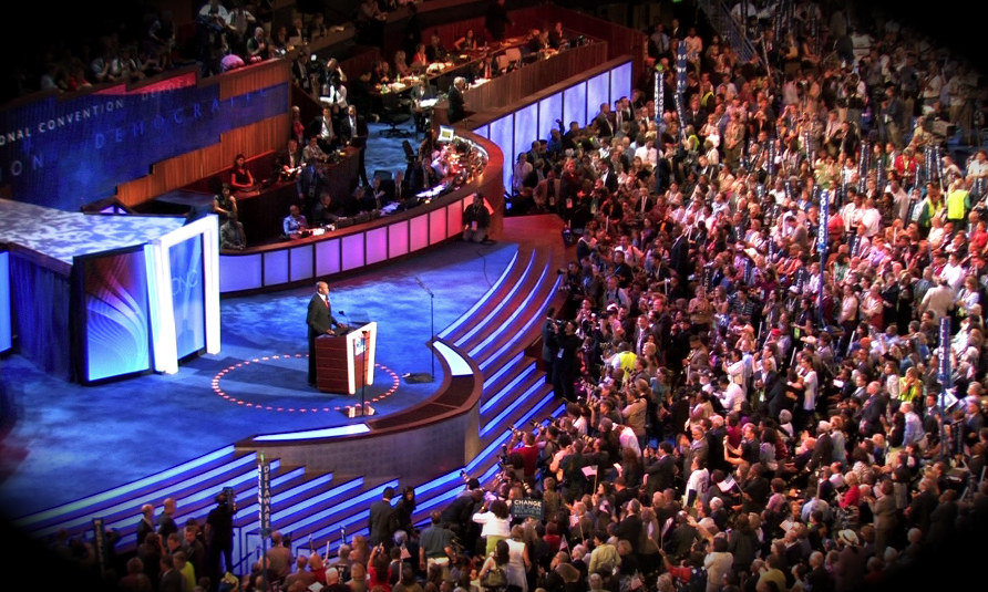 Craig Robinson (basketball coach) at en:2008 Democratic National Convention